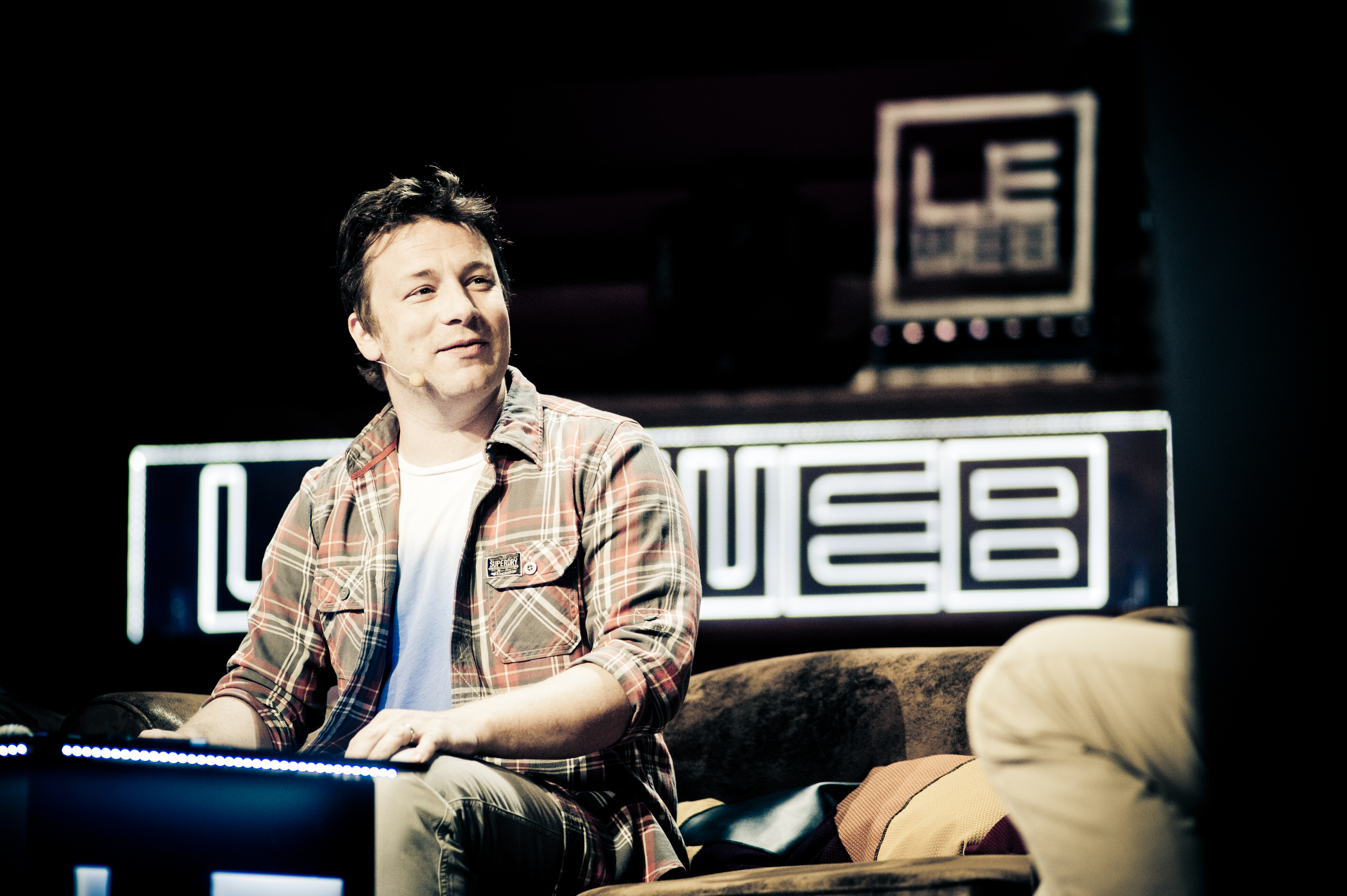 Photo by @Kmeron for LeWeb12 Conference @ Westminster Central Hall -London